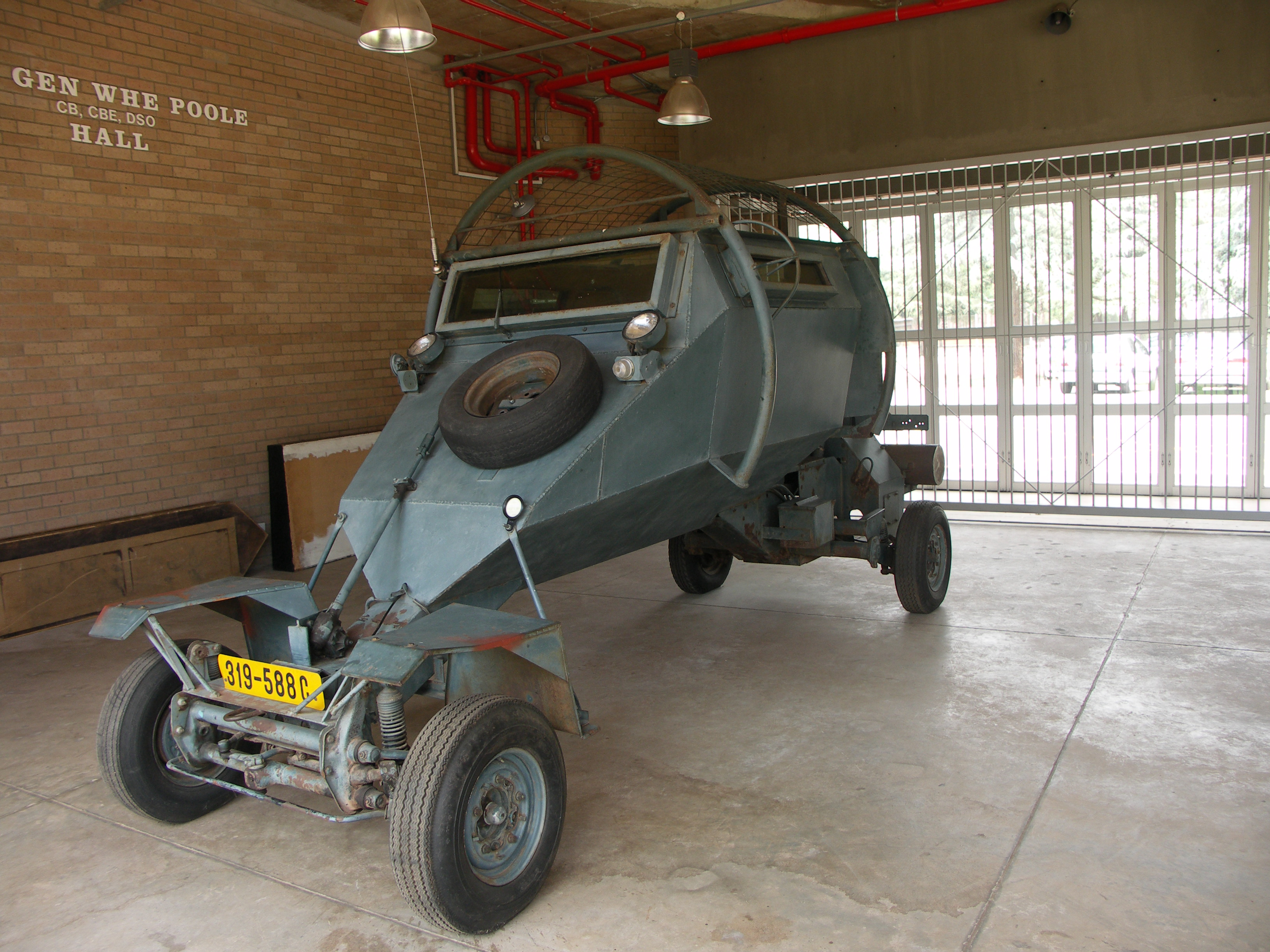 The Rhodesian Leopard landmine resisting or 'anti-landmine' vehicle. Initially built for civilian use during the Bush War, but ultimately used by the Rhodesian Security Forces and Para-Statals. Photo taken at the South African National Museum of Military History